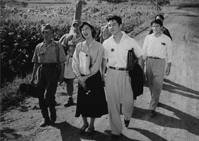 From right:Eiji Okada, Keiju Kobayashi and Keiko Kishi in 1955 Japanese movie Koko ni izumi ari